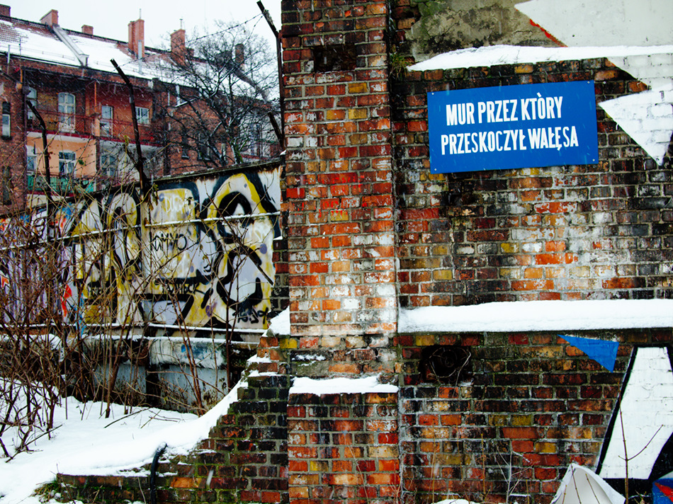 A remarkable sign of history reads "the wall that Walesa jumped over", just in the very place that the 1980's history of Solidarity (Solidarność) started. Some say this historical jump is the greatest fake while the others admit if Walesa didn't come into the Shipyard, the initial strike would finish soon.